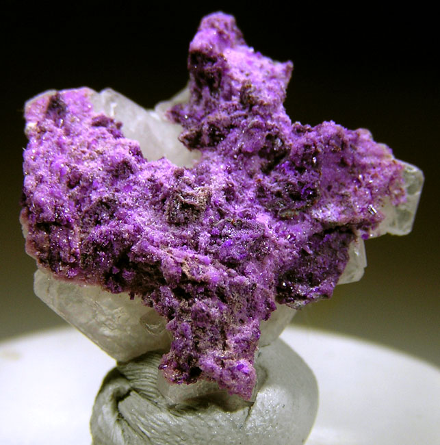 Sugilite Locality: Wessels Mine (Wessel's Mine), Hotazel, Kalahari manganese fields, Northern Cape Province, South Africa (Locality at ) A rich thumber of pretty purple sugilite on a matrix of bladed barite crystals. Nice example of a very rare species! 2.4 x 2.1 x 1.2 cm